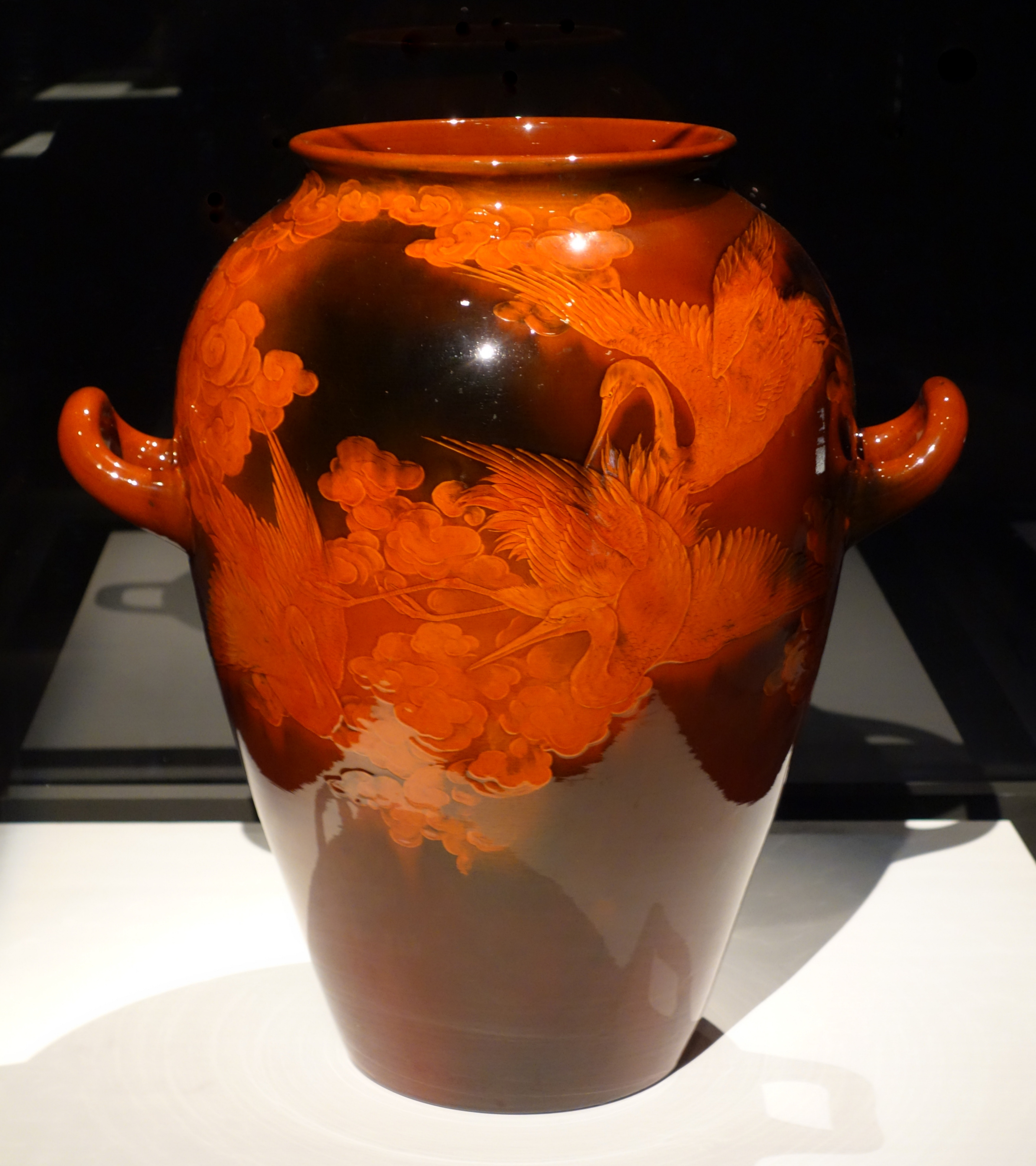 Exhibit in the Cincinnati Art Museum, Cincinnati, Ohio, USA. This artwork is in the public domain because the artist died more than 70 years ago.